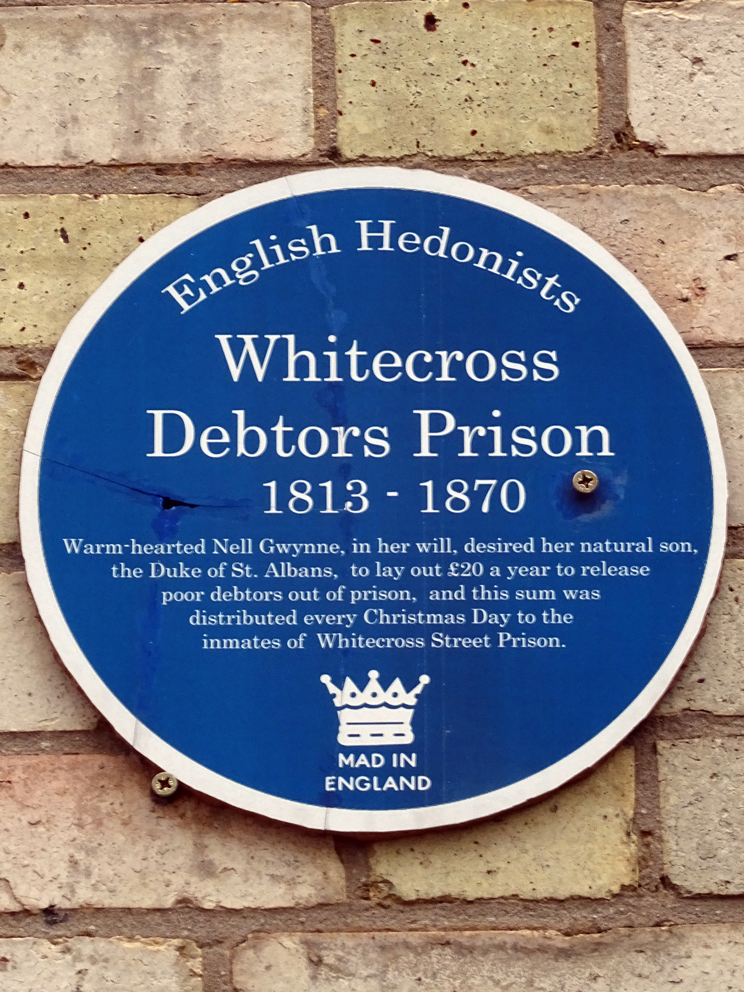 Blue plaque erected in 2013 by artist Carrie von Reichardt in Whitecross Street London EC2